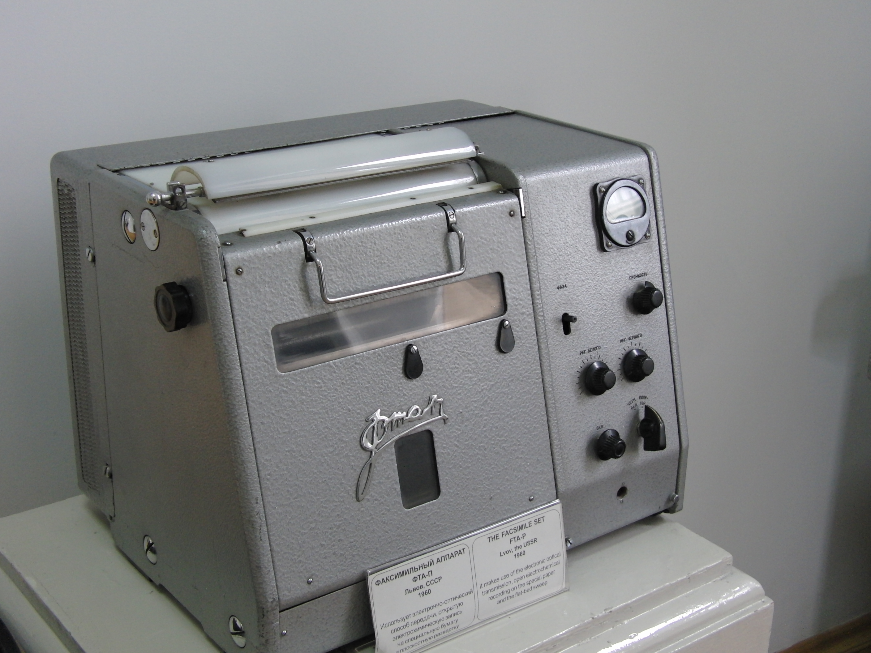 Soviet fax machine in Polytechnical Museum, Moscow